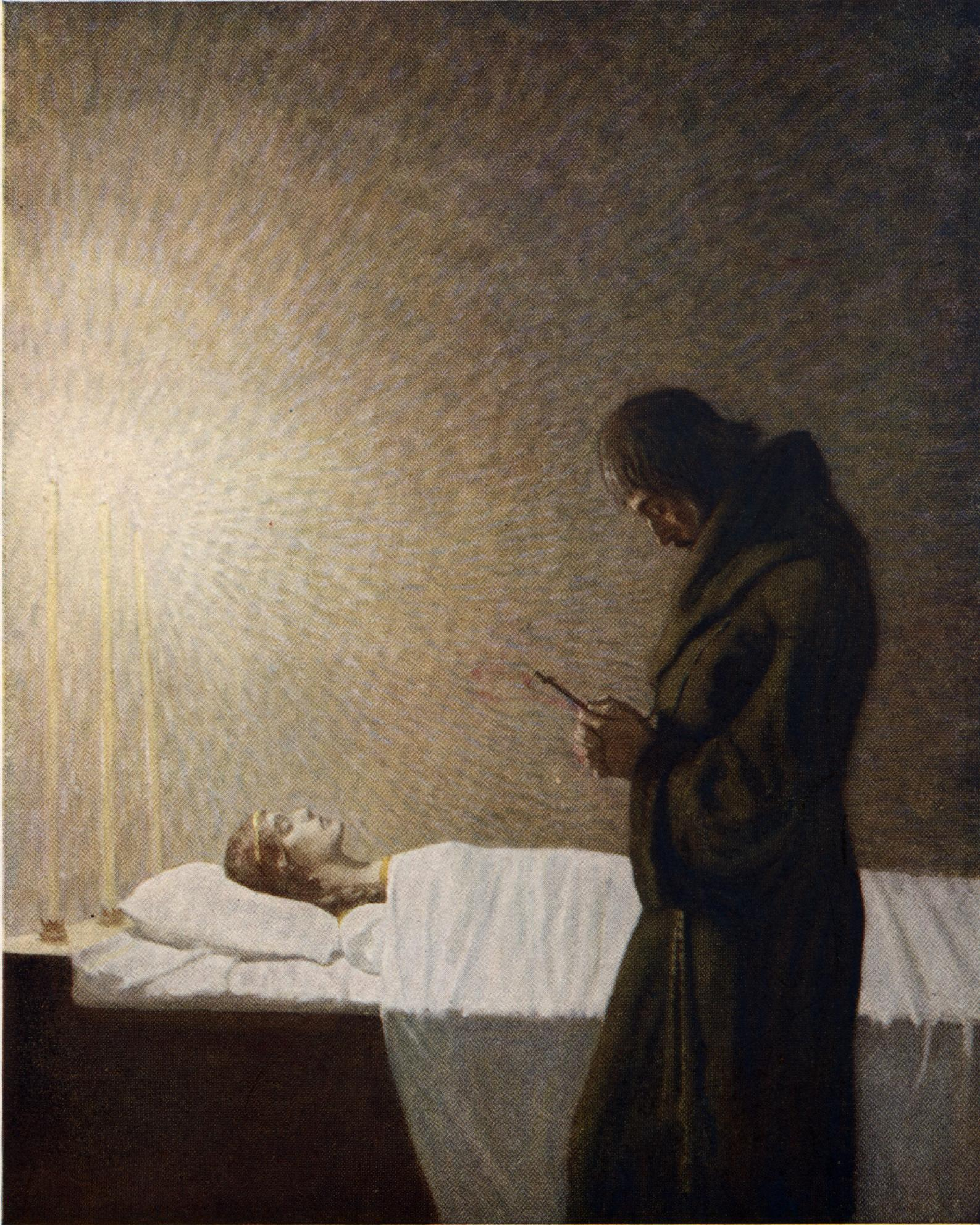 Illustration from page 316 of The Boy's King Arthur: the death of Guenever - "The Sir Launcelot saw her visage, but he wept not greatly, but sighed."